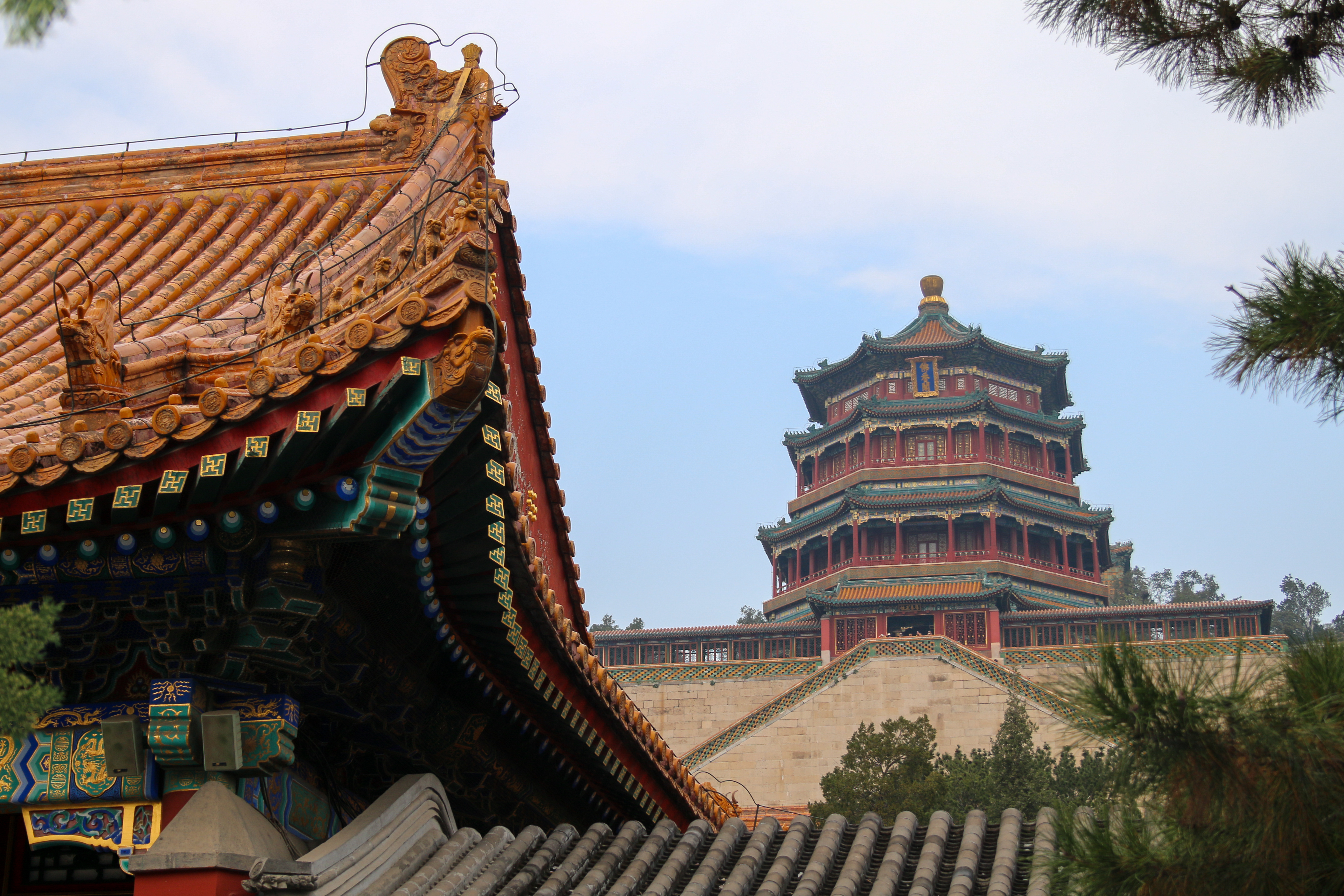 Tower of Buddhist Incense